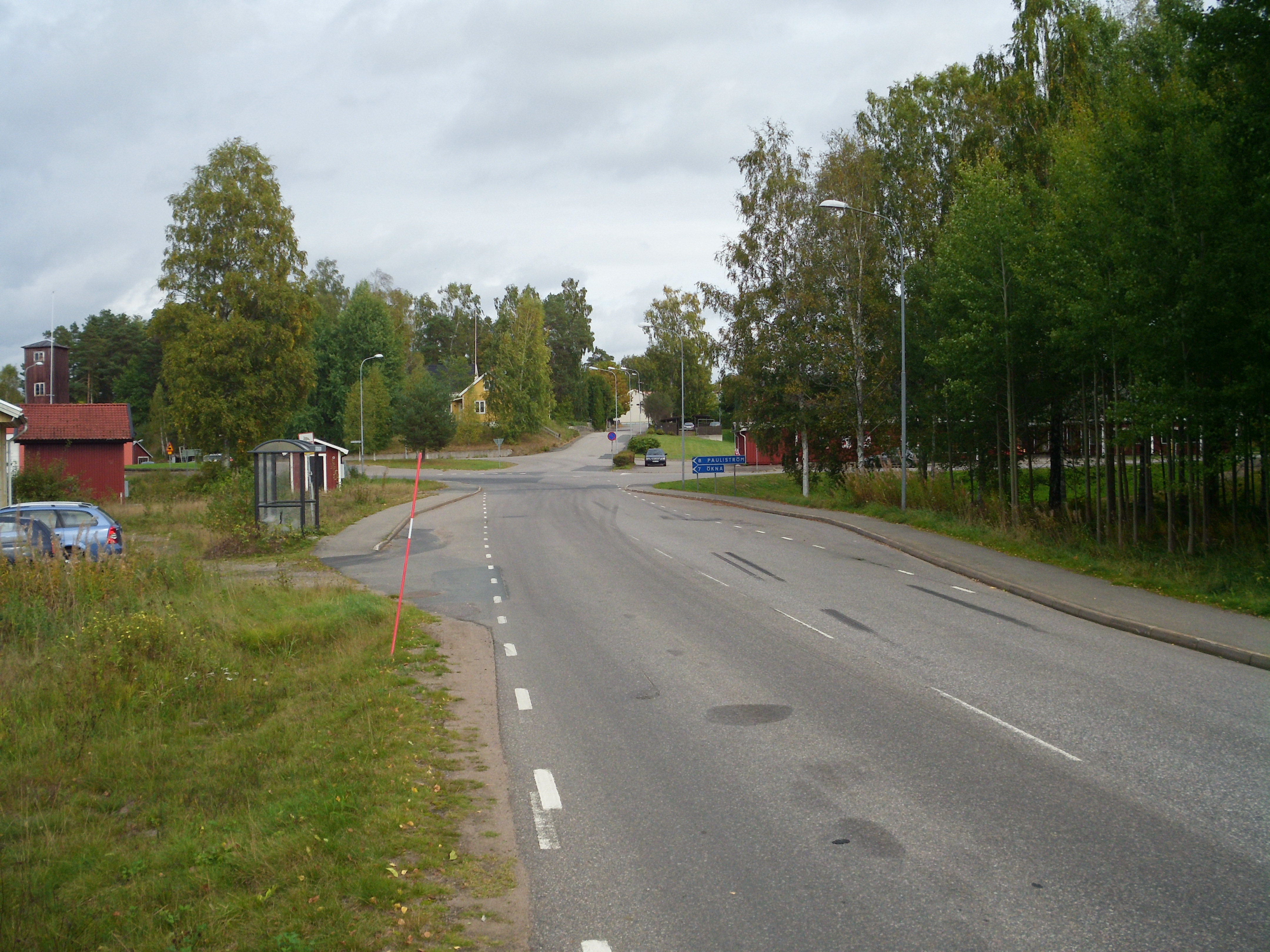 Center of Kvillsfors, Sweden.